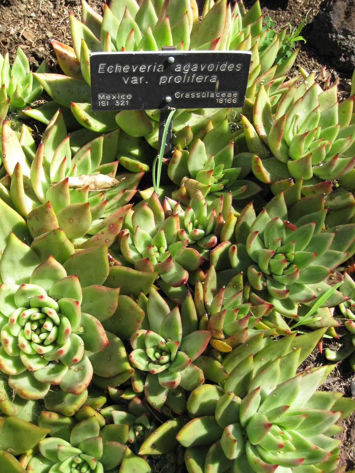 Photographed at Huntington Gardens (Los Angeles) in March